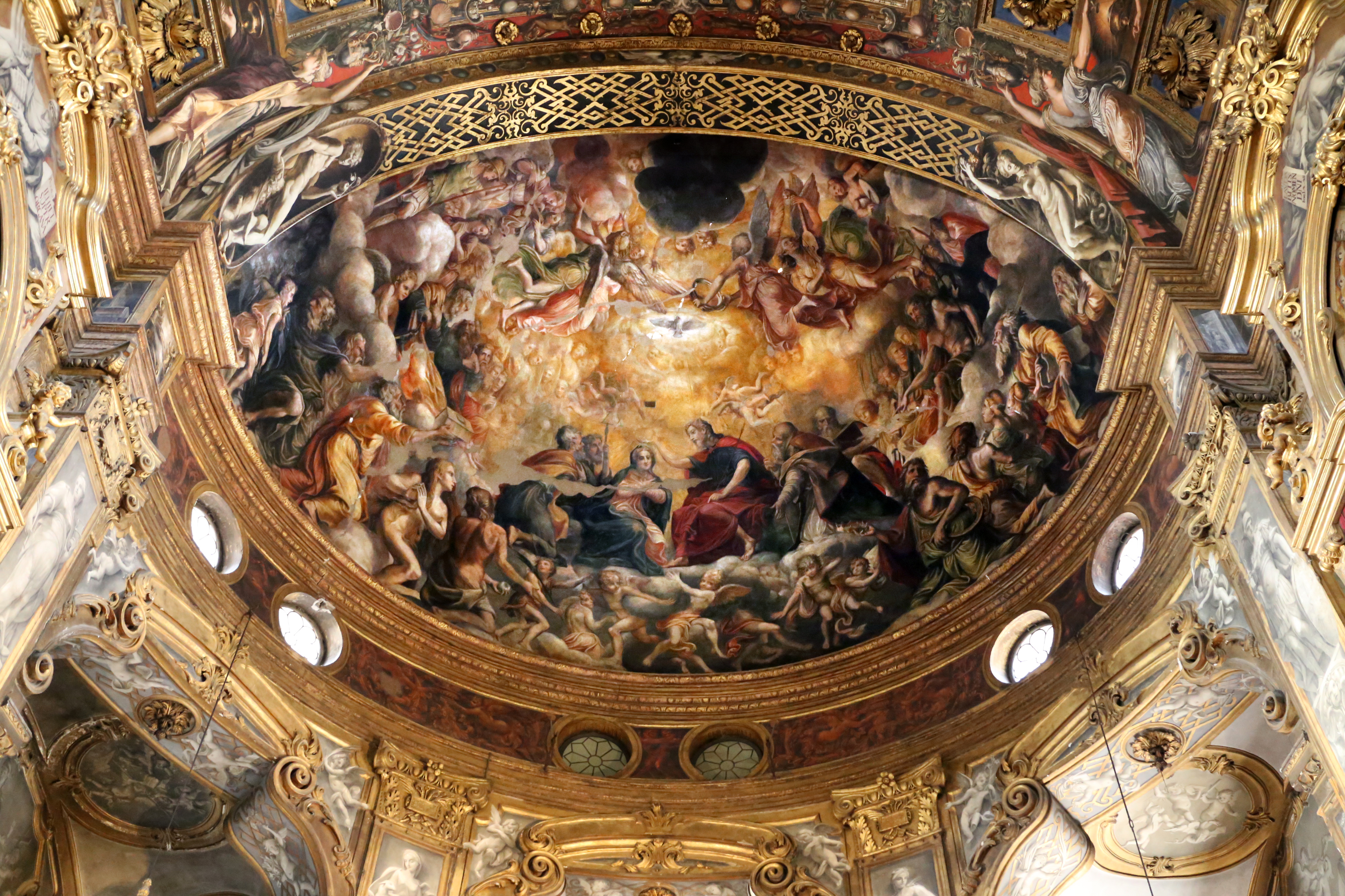 Santa Maria della Steccata (Parma) - Interior